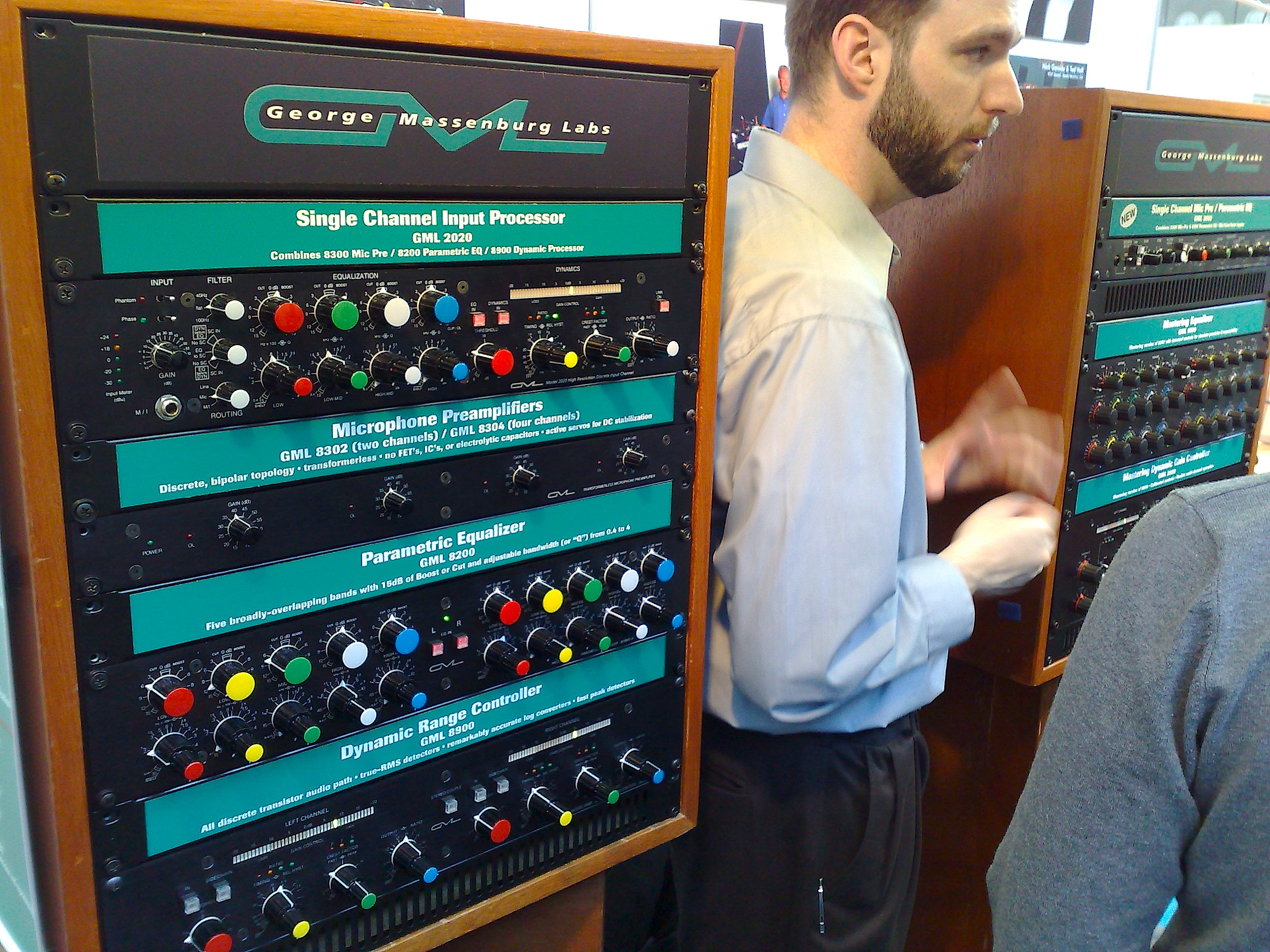 GML - George Massenburg Labs left GML 2020 Single Channel Input Processor 8300 Mic Pre 8200 Parametric EQ 8900 Dynamic Processor GML 8302 (2ch) / GML 8304 (4ch) Microphone Preamplifires GML 8200 Parametric Equalizer GML 8900 Dynamic Range Controller right GML 2032 Single Channel Mic Pre / Parametric EQ GML 9500 Mastering Equalizer GML 2030 Mastering Dynamic Gain Controller